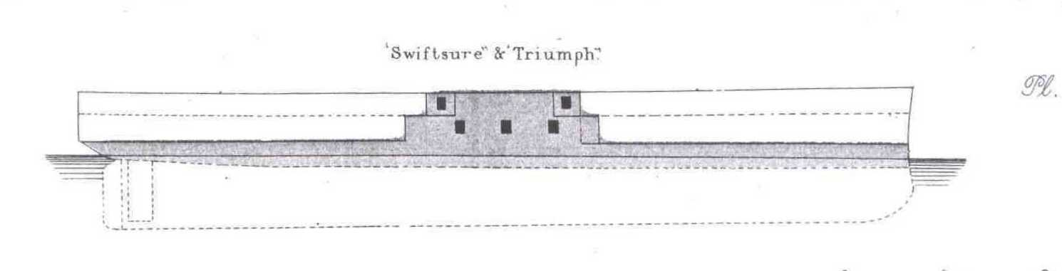 Line-drawing of Swiftsure class ironclads: HMS Swiftsure and HMS Triumph